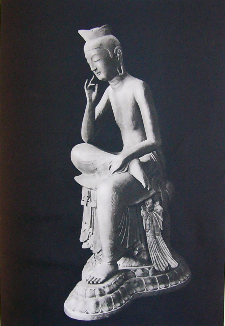 Maitraya, Wood, Figure Height 123.5cm, about 6-7th century